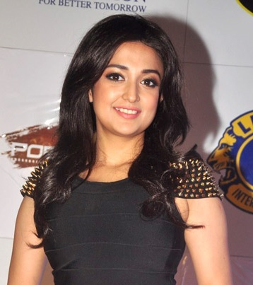 Monali Thakur at the '21st Lions Gold Awards 2015'.